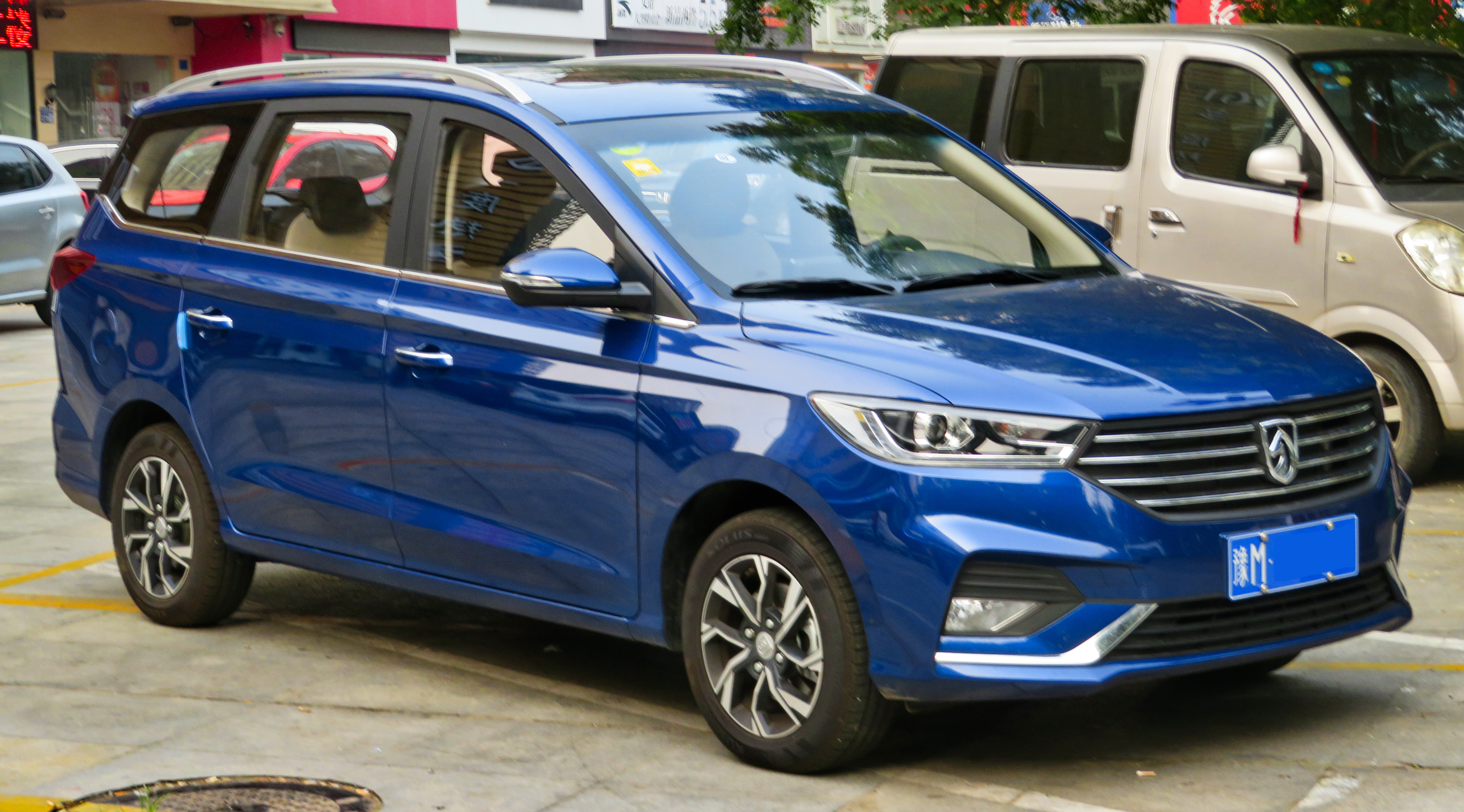 A 2018 Baojun 360 1.5L photographed in Luoyang, Henan province, China